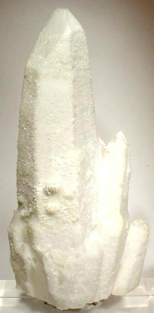 Quartz Locality: Idarado Mine, Telluride, Ouray District (Uncompahgre District), San Miguel County, Colorado, USA (Locality at ) A VERY SHOWY, EXCELLENT and very nearly pristine Colorado specimen from the famous Idarado Mine. A sharp, CABINET-SIZED quartz crystal is coated with snow-white drusy quartz. The sidecar crystals add character to this fine piece, which has only one broken sidecar crystal on the backside. Ex Ed Ruggiero Collection, who purchased this piece in November, 1975. MUCH BETTER IN PERSON, as a Colorado collector will know. 11.3 x 5.7 x 5.1 cm